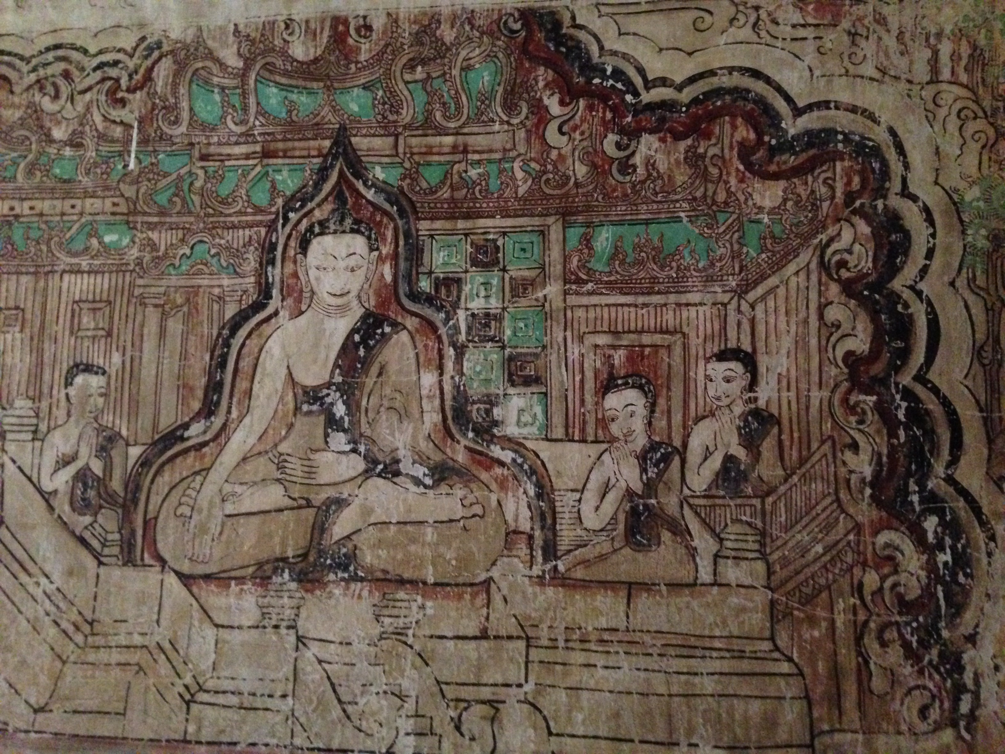 An ancient wall painting depicting the awakening of the Buddha Taṇhaṅkara in Upali Thein temple, Bagan, Myanmar.